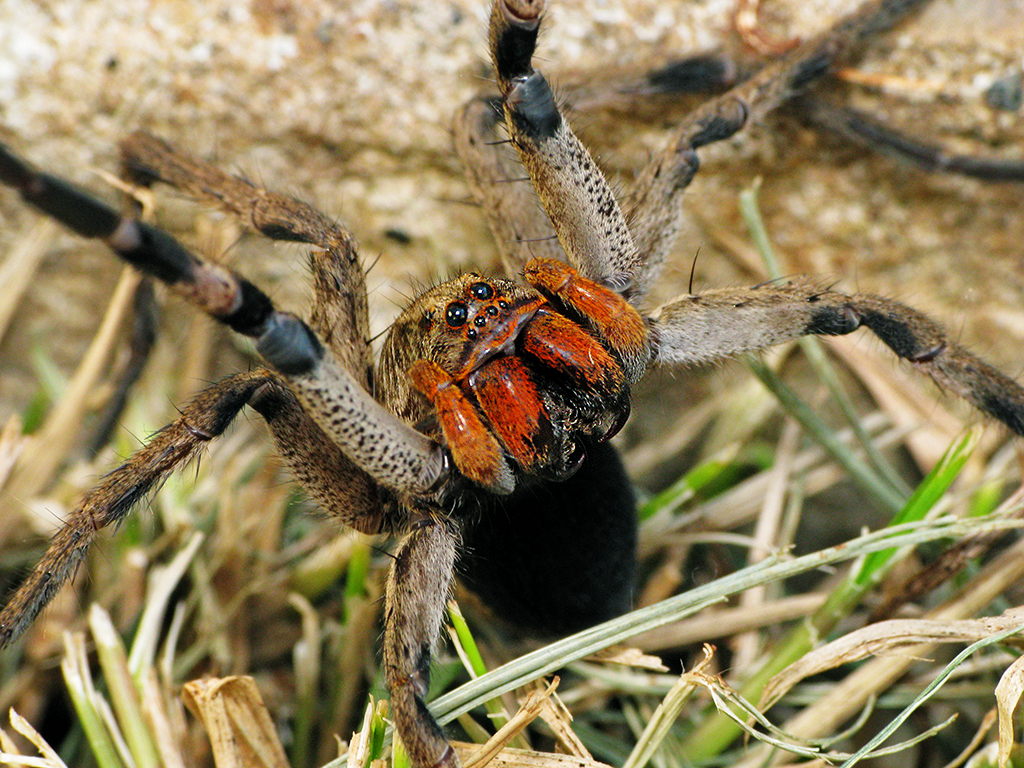 Defensive threat display of a wolf spider, sub-adult male Lycosa erythrognatha